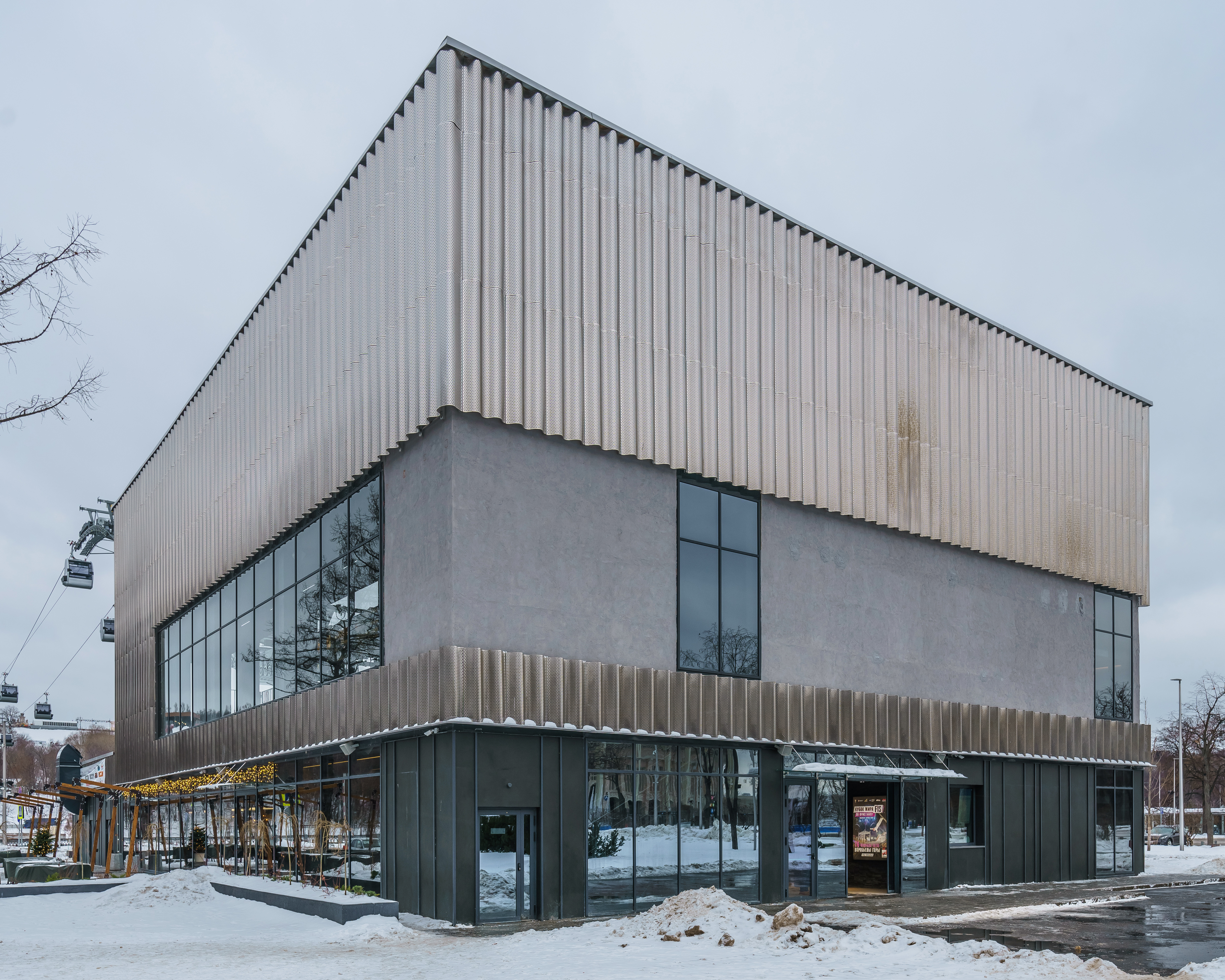 Sparrow Hills Cableway in Moscow, Russia: building of Luzhniki station